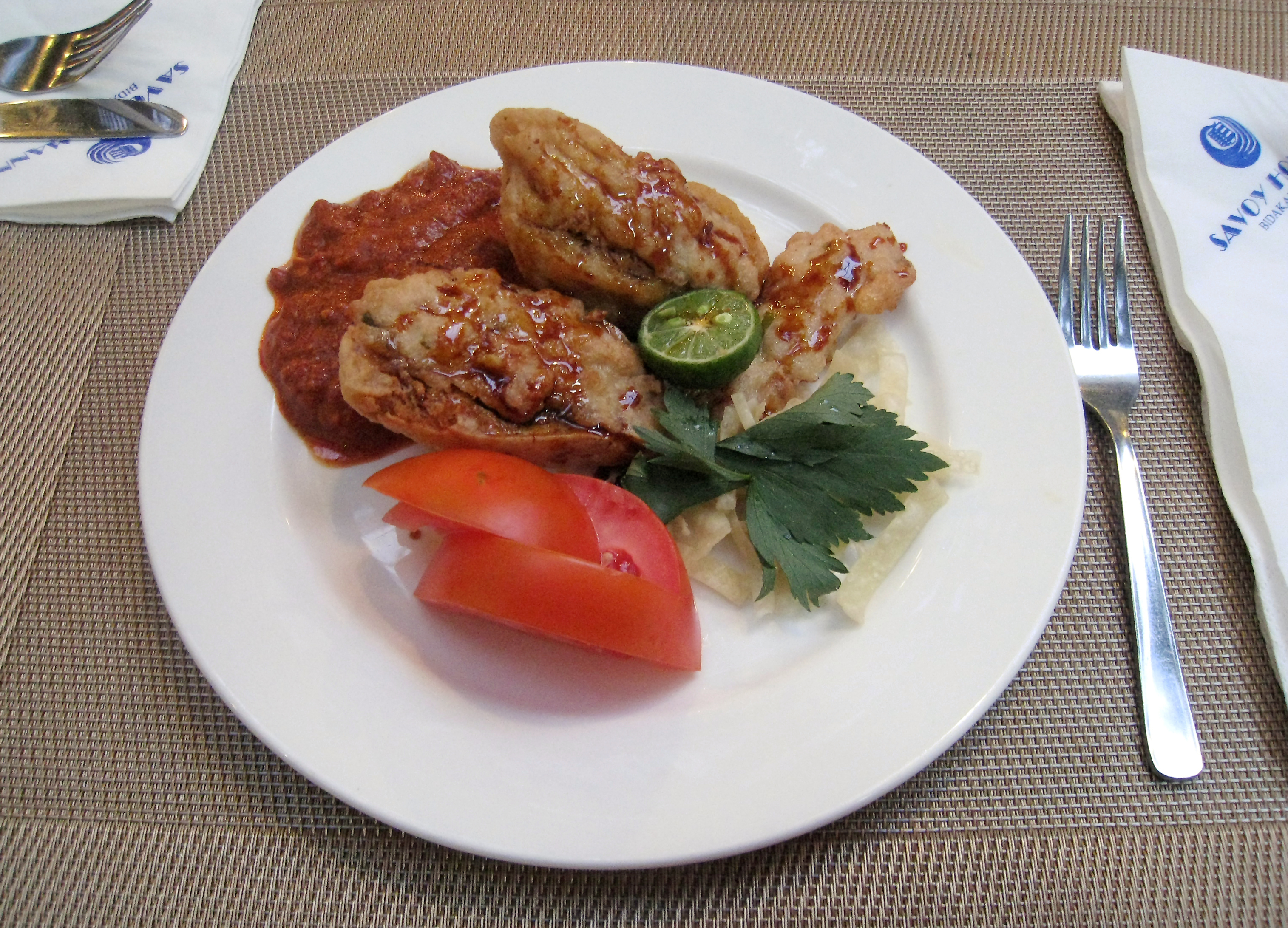 Batagor (baso tahu goreng) breakfast at Savoy Homann Hotel Bandung. It is made of fried tofu and wahoo fish in peanut sauce.